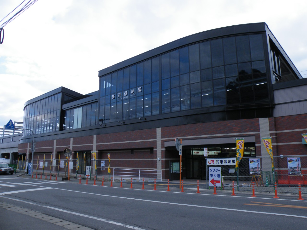 Takeo-Onsen Station North Exit